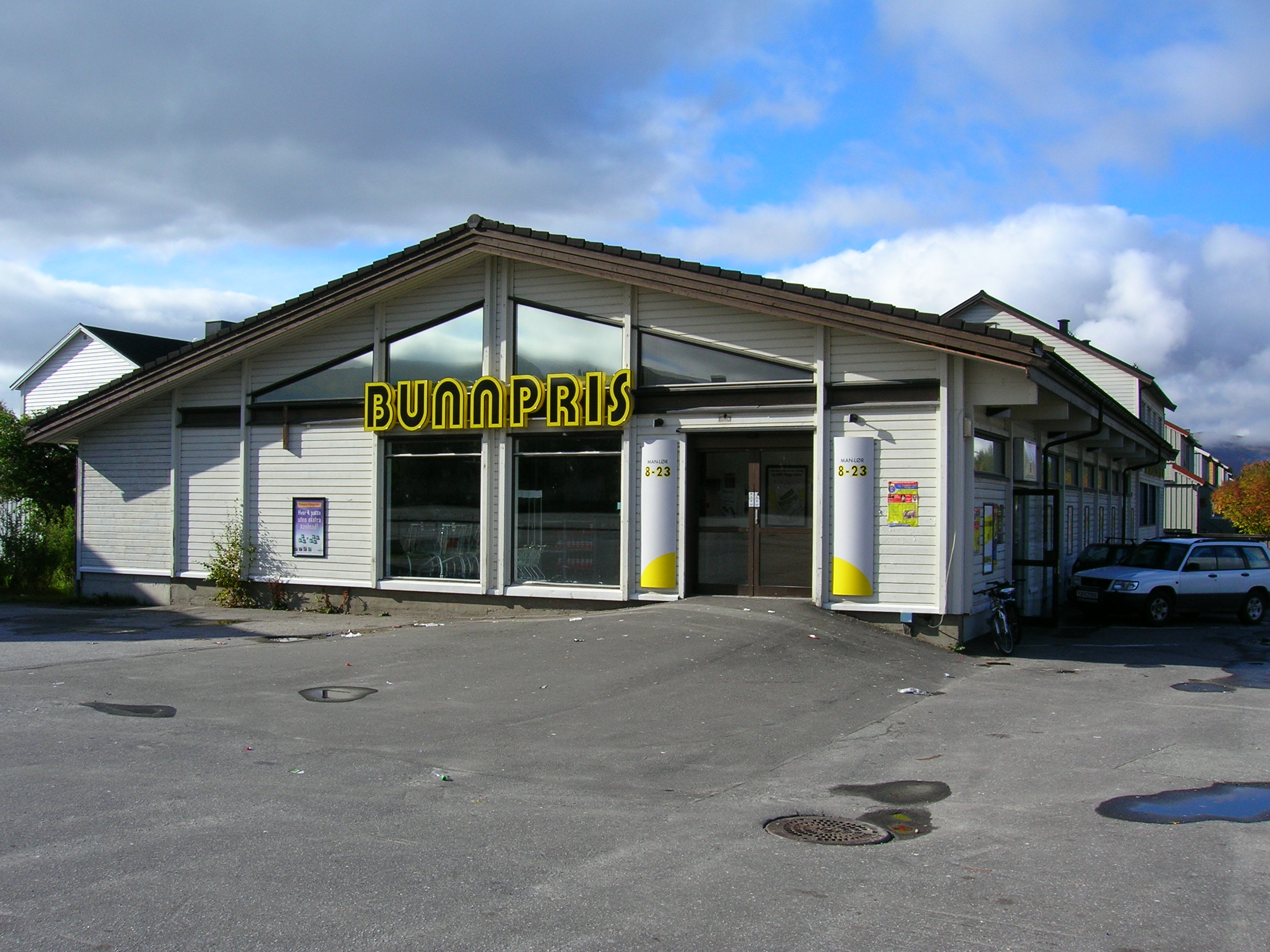 The grocery store «Bunnpris AS» on Gruben. Rana municipality, county of Nordland, Norway. Photo 16 September 2007 with a Nikon Coolpix 5600 5,1 Megapixel camera.